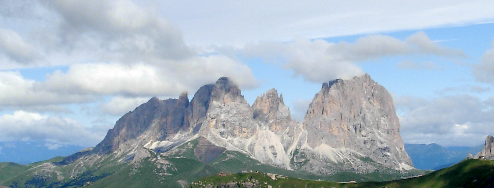 Langkofel - view from Marmolada side